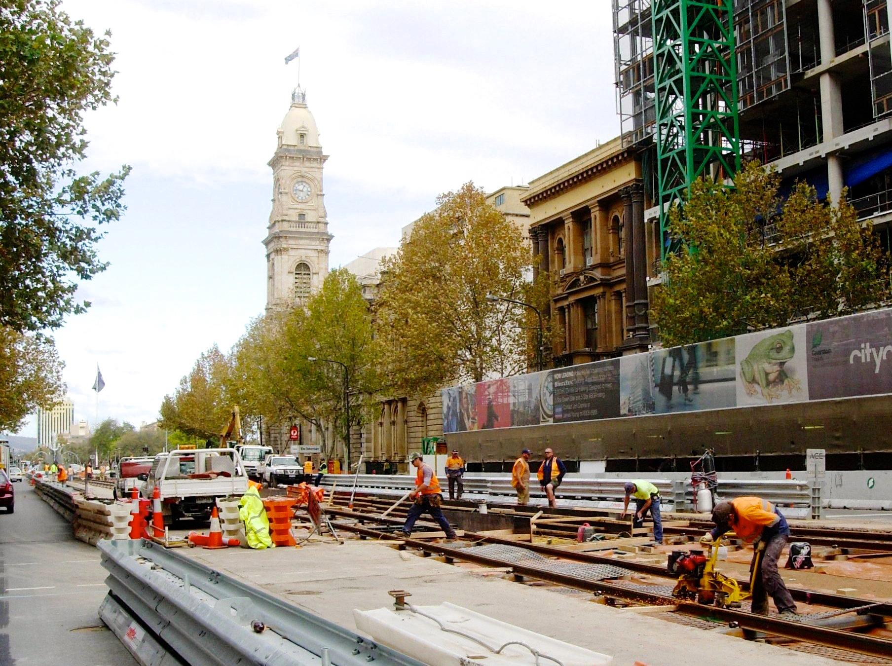 Photo of construction of new tram line in King William Street, Adelaide, South Australia. People at work are dressed in orange high-visibility vests; the man in the foreground is grinding a rail-weld smooth. In the centre background is the Adelaide General Post Office.